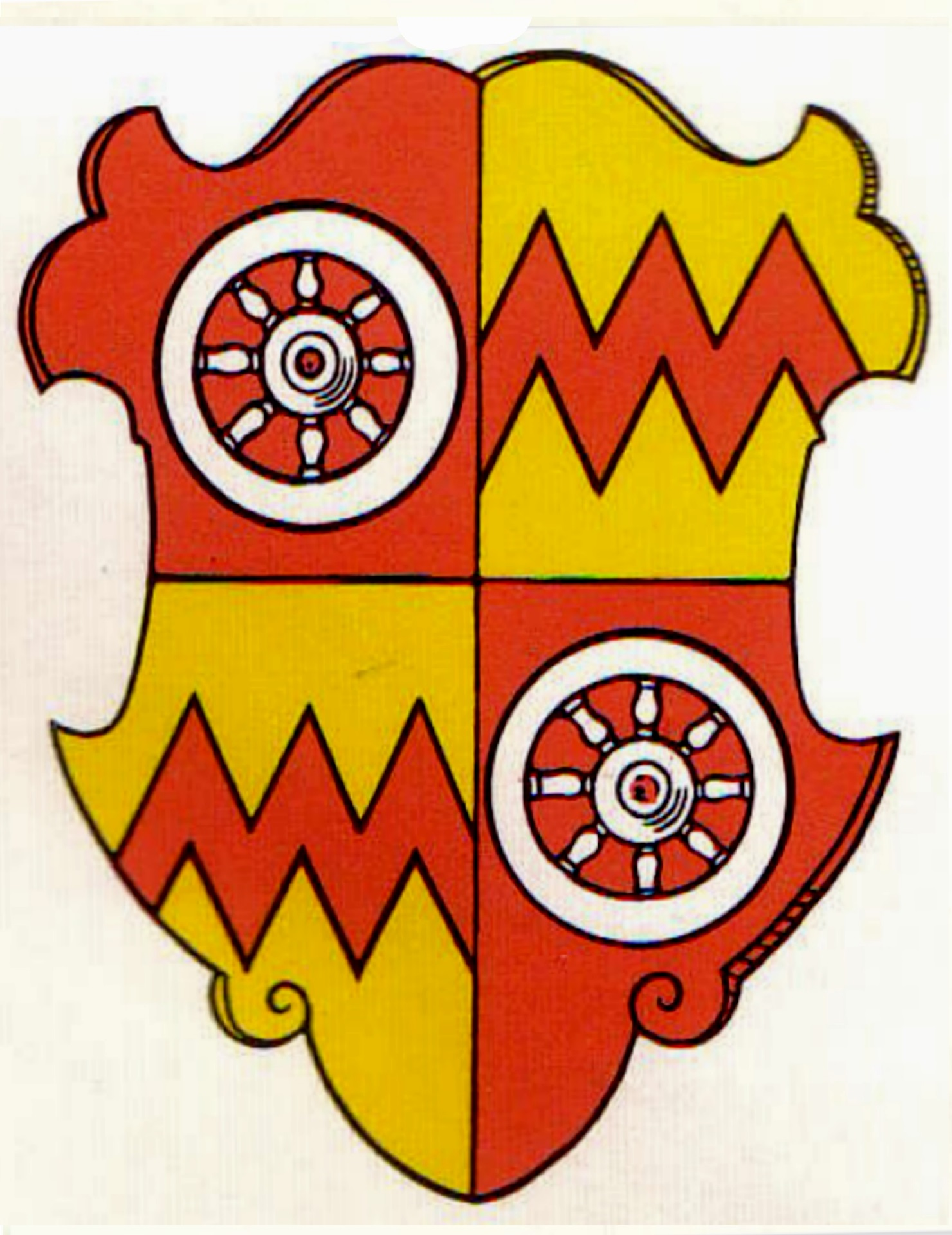 COA of Daniel Brendel of Homburg